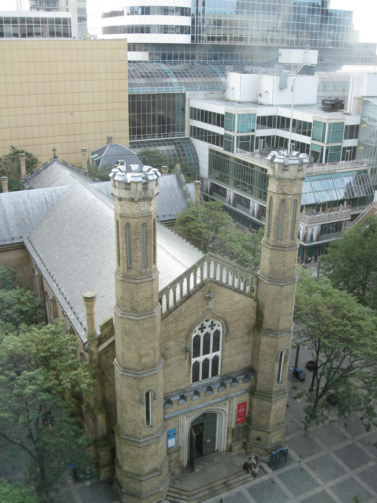 Holy Trinity Church, Toronto, Canada.